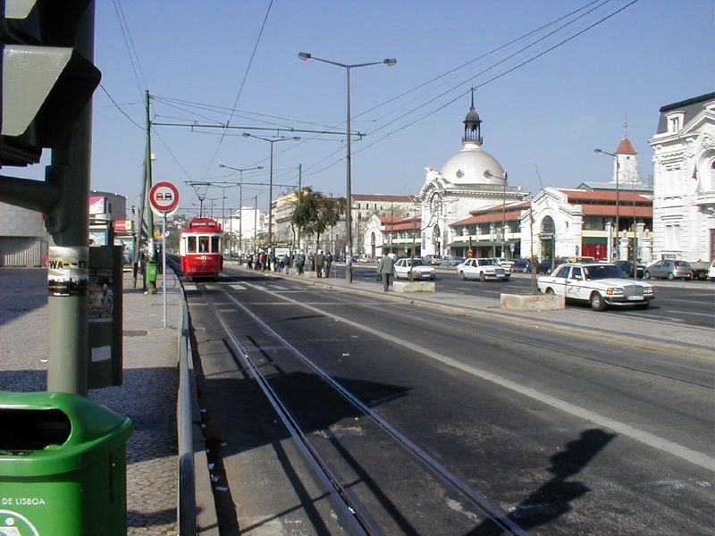 A car of Lisbon's tramway near Cais do Sodré train station at Avenida 24 de Julho